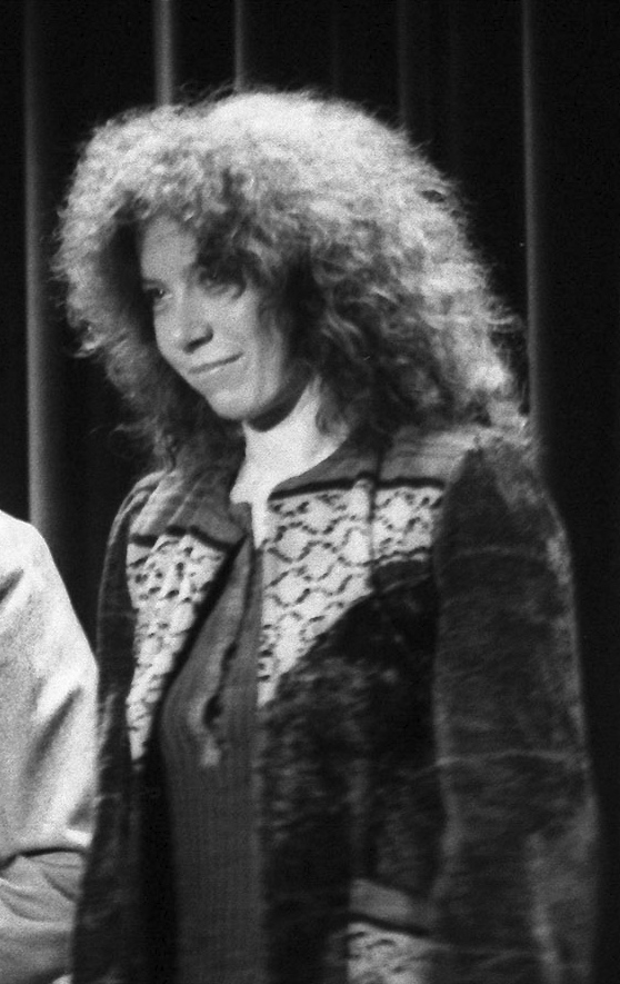 Evelyn Hamann after a reading with Vicco von Bülow from his book Loriots dramatische Werke; Dortmund in the early 1980s